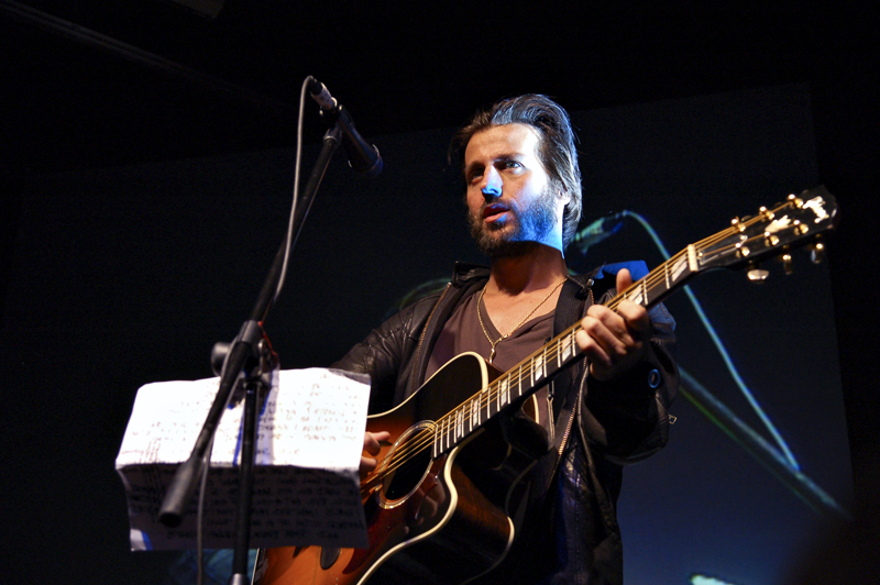 Raine Maida at the 2007 CASBY Awards in Toronto, Ontario, Canada.